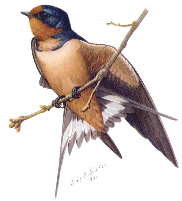 Barn Swallow , Hirundo rustica, chromolithograph after painting (watercolor or acrylic)